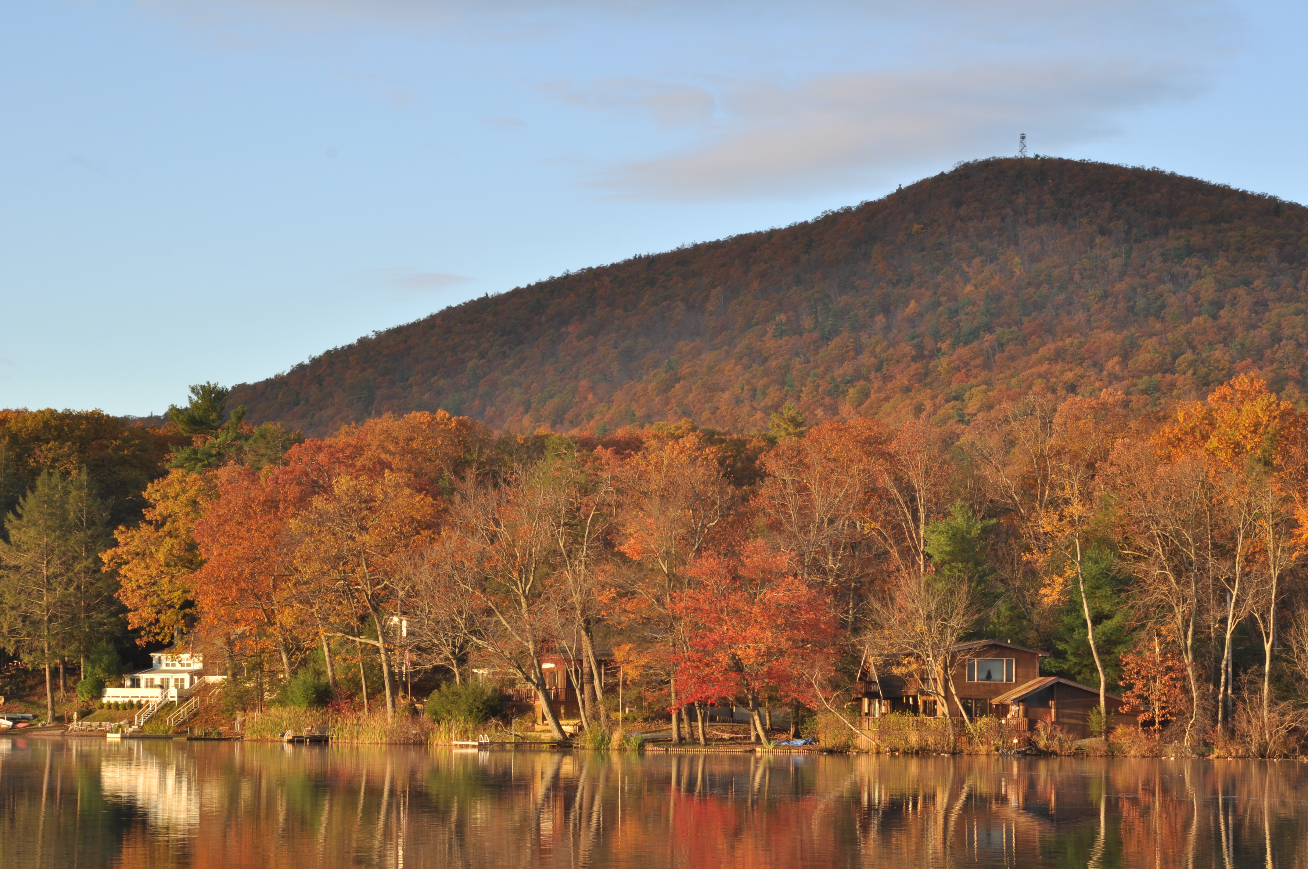 Stissing Mountain in Pine Plains, New York, USA, viewed across Stissing Pond.